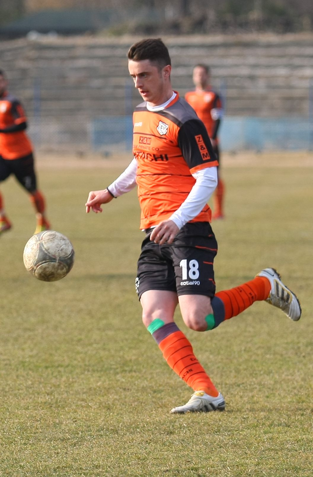 Vladislav Bejanski - Bulgarian football player, striker of FC Slivnishki geroi (Slivnitsa)